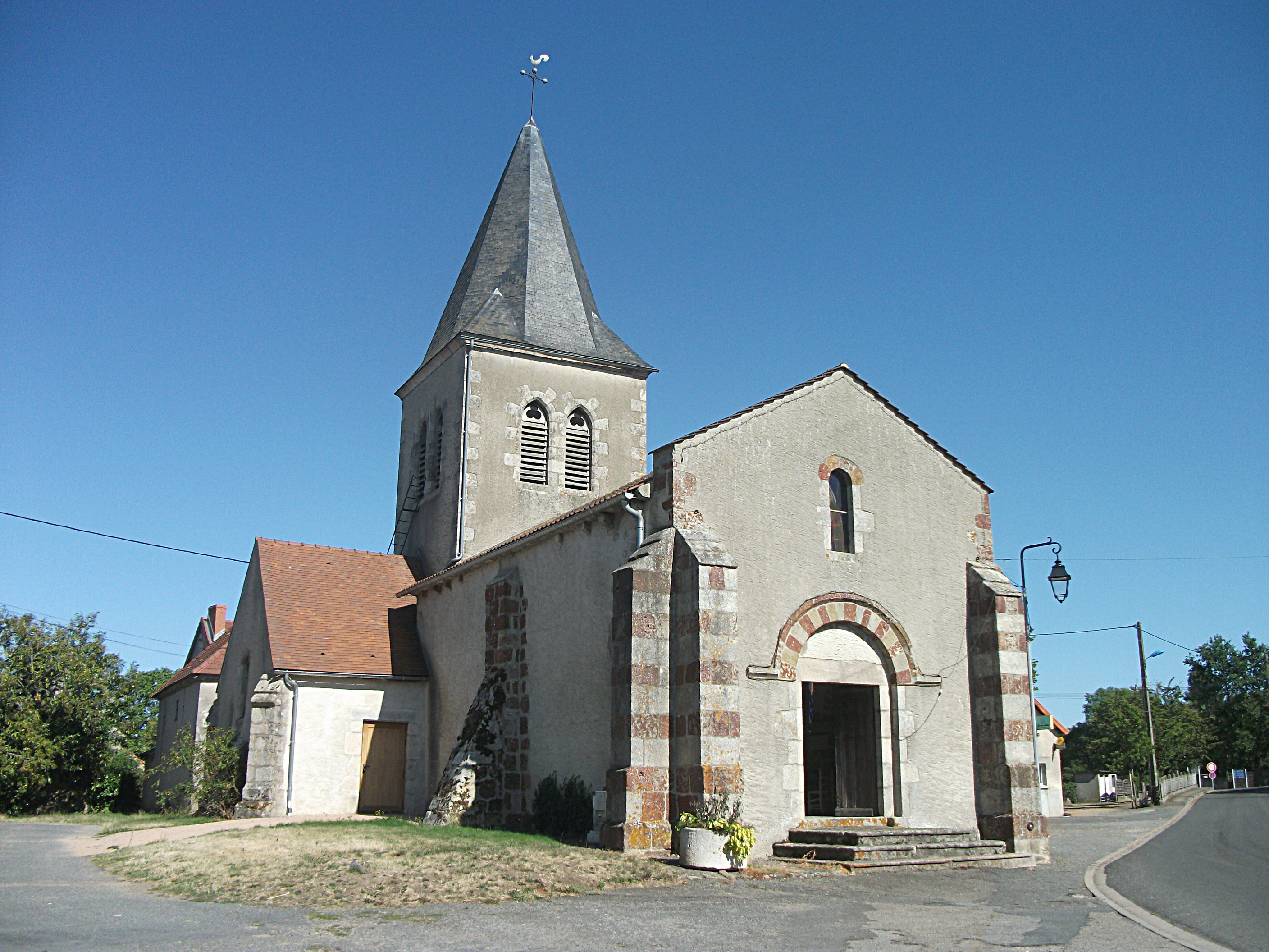 Church of Louroux-de-Bouble, Allier, Auvergne-Rhône-Alpes, France. [19005]